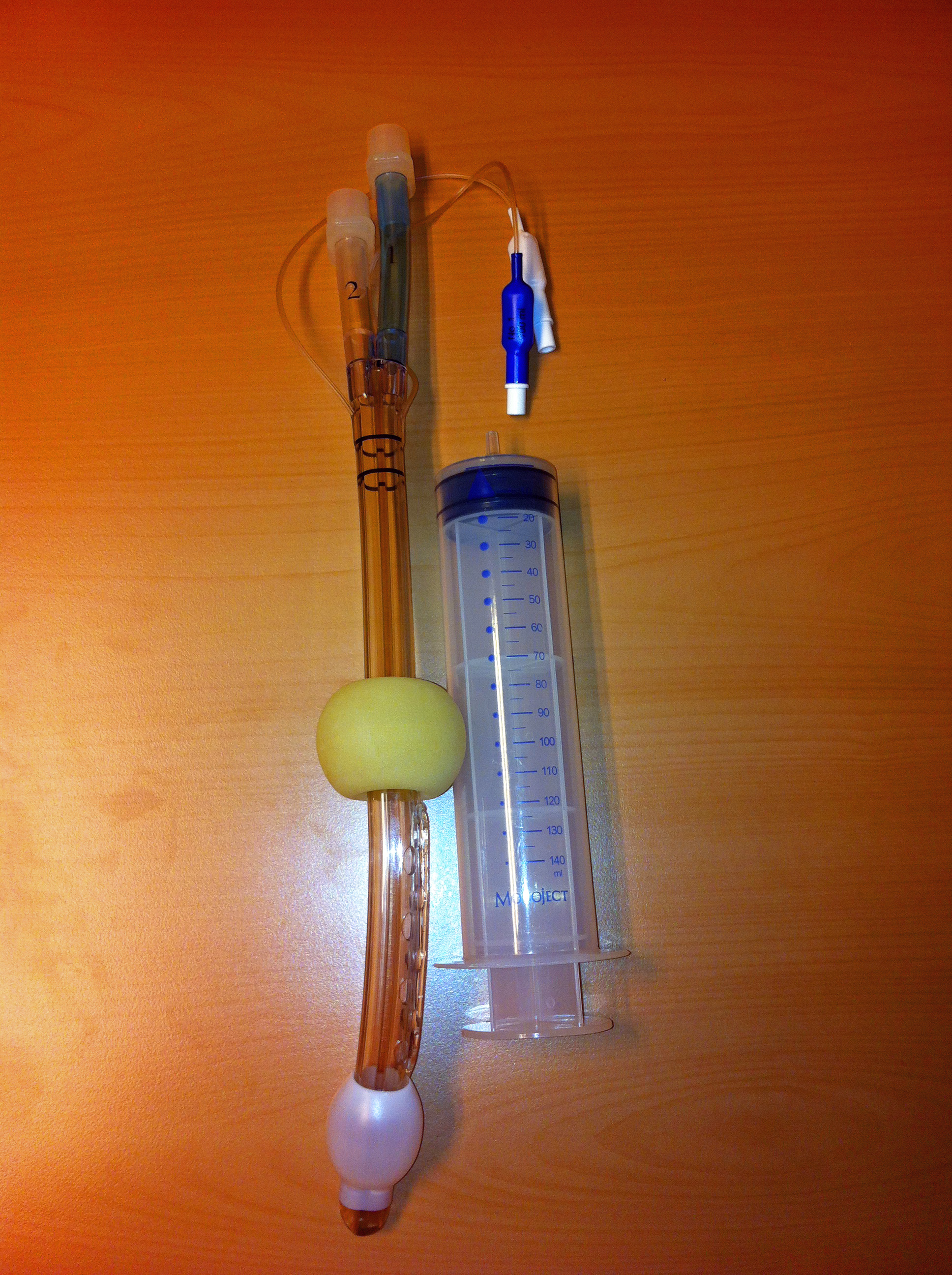 Photograph of a Combitube or double-lumen airway, a blind insertion airway device used in an emergency setting to provide an airway to facilitate the mechanical ventilation of a patient in respiratory distress